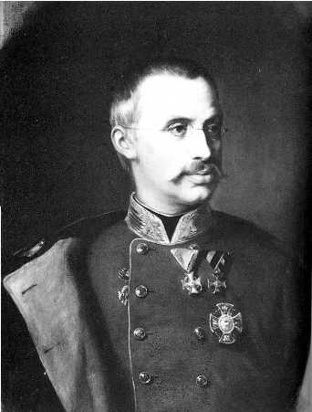 Archduke Albert (Albrecht) of Austria, Duke of Teschen (1817-1895), Field marshal, son of Archduke Karl of Austria (the victor of Aspern 1809.)